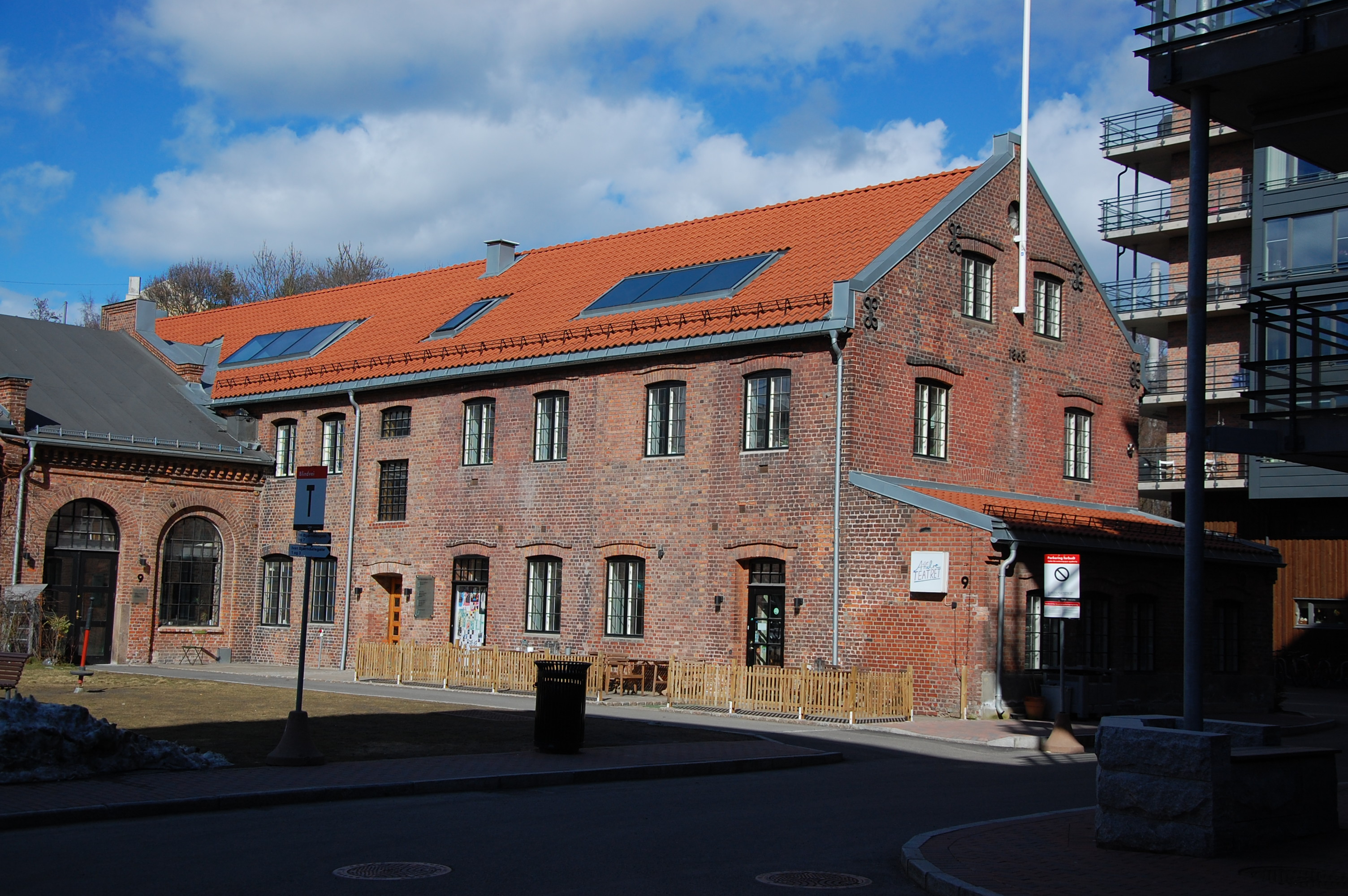 Buildings used by former factory Denofa og Lilleborg fabrikker in Ivan Bjørndals gate, Oslo, Norway.